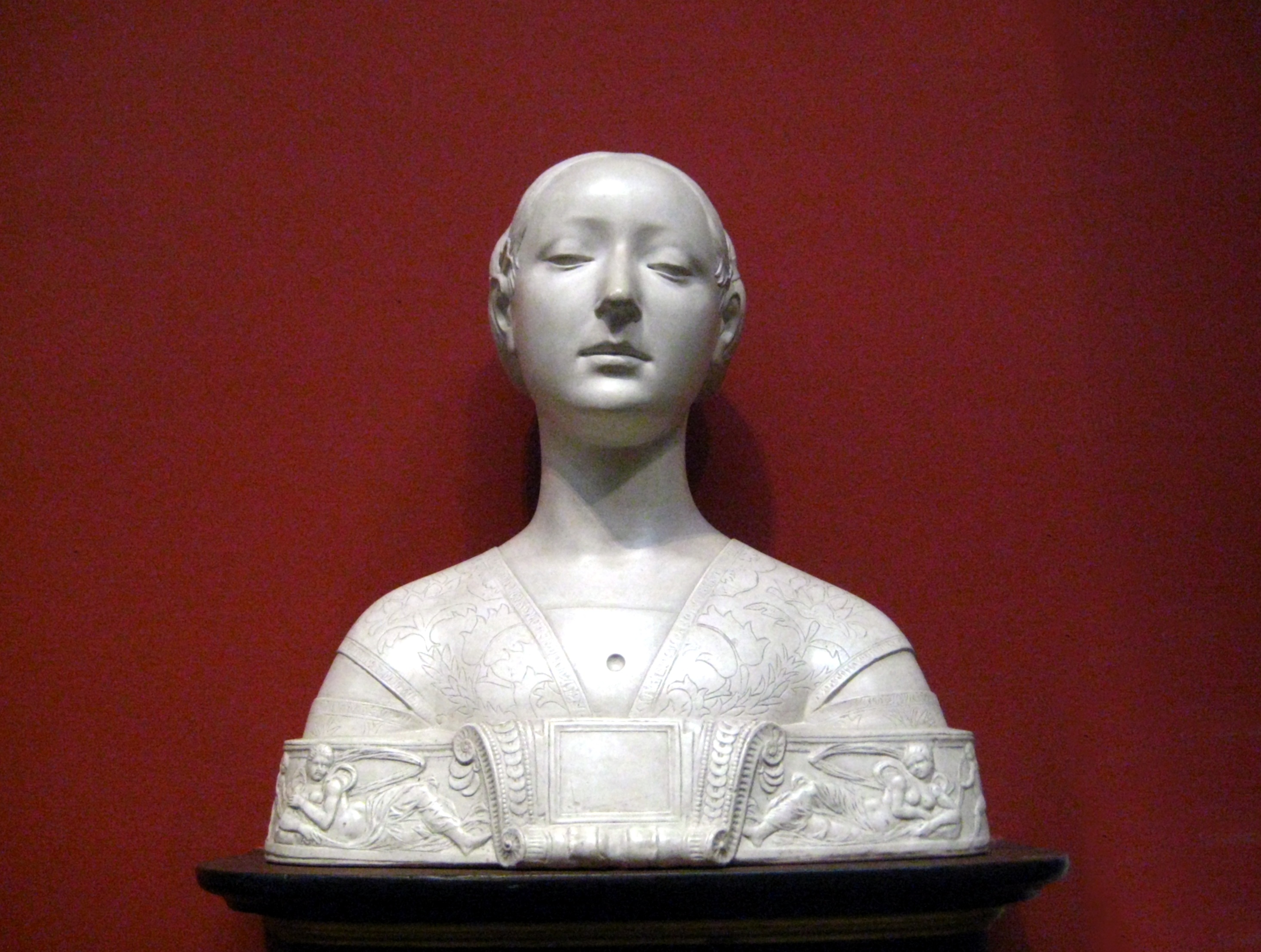 Woman by Francesco Laurana (ca. 1472). Cast from original in Berliner museum. Plaster cast, portrait bust of a woman after marble original by Francesco Laurana. The sitter has been tentatively identified as Ippolita Maria Sforza, the wife of King Alfonso II of Naples, but this theory is not based on any secure evidence. This cast represents one of nine female portrait busts ascribed to Laurana on the basis of their resemblance to a series of documented figures of the Virgin and Child in Sicily. Two of these busts, in the Frick Collection, New York, and in the National Gallery of Art, Washington D.C., are closely related to the portrait in this cast as they appear to represent the same person, and have similar bases decorated with classicizing figures. The sitter has been tentatively identified as Ippolita Maria Sforza, the wife of King Alfonso II of Naples, but this theory is not based on any secure evidence. The lost portrait bust in Berlin had the remains of extensive pigmentation, and the faint incised decoration of the dress, was, on the original, a richly gilded pattern. The hole at the breast may once have been covered by a metal brooch or pendant and the cartouche might have originally contained the sitter's name. The original painted and gilded marble bust was formerly in Berlin, Germany, but was destroyed in 1945. This bust had been digitalized and the digital model is on open license. It is often used for 3d software demonstrations.